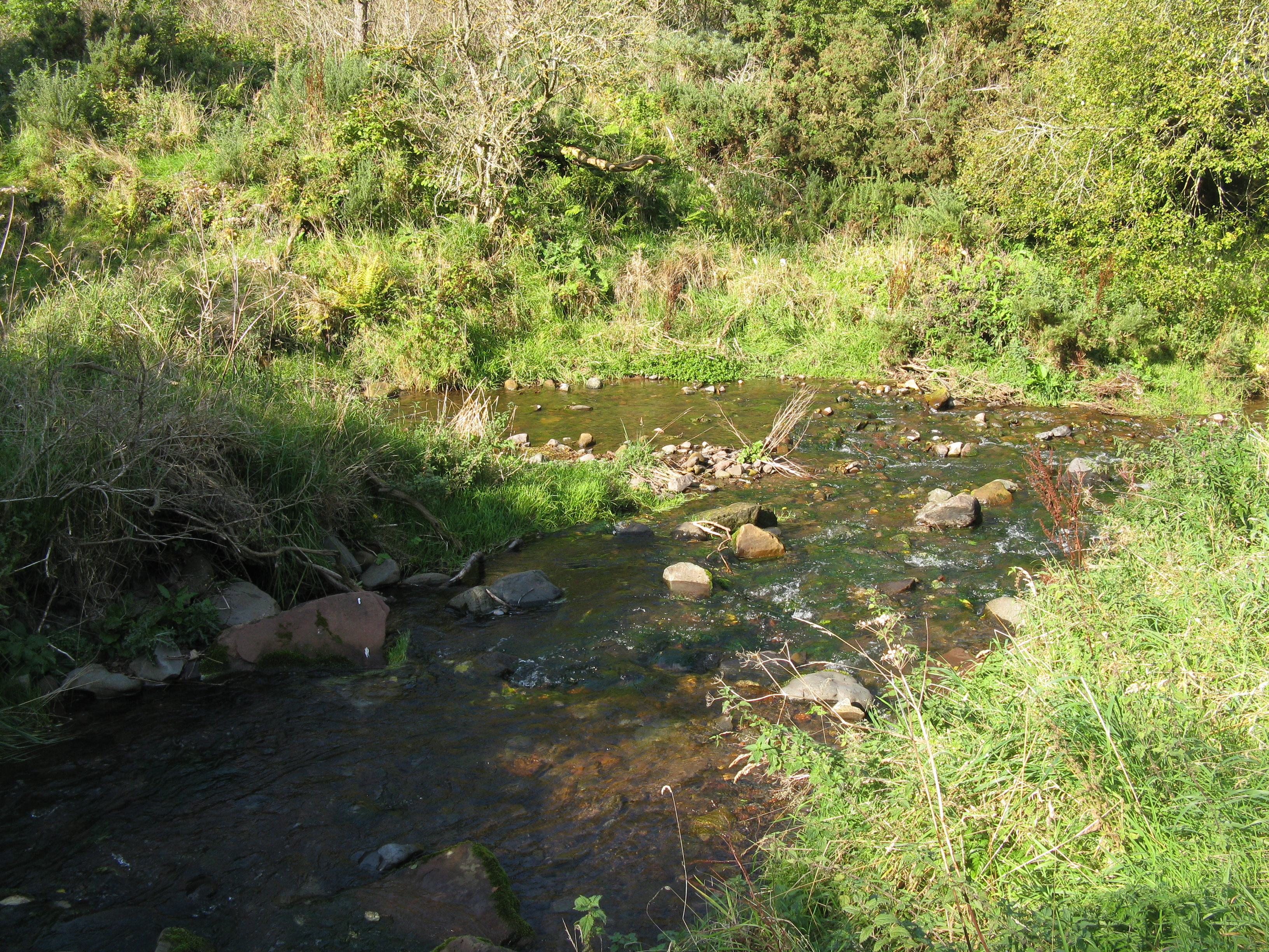 Confluence of Tower Burn and Pease Dean Burn